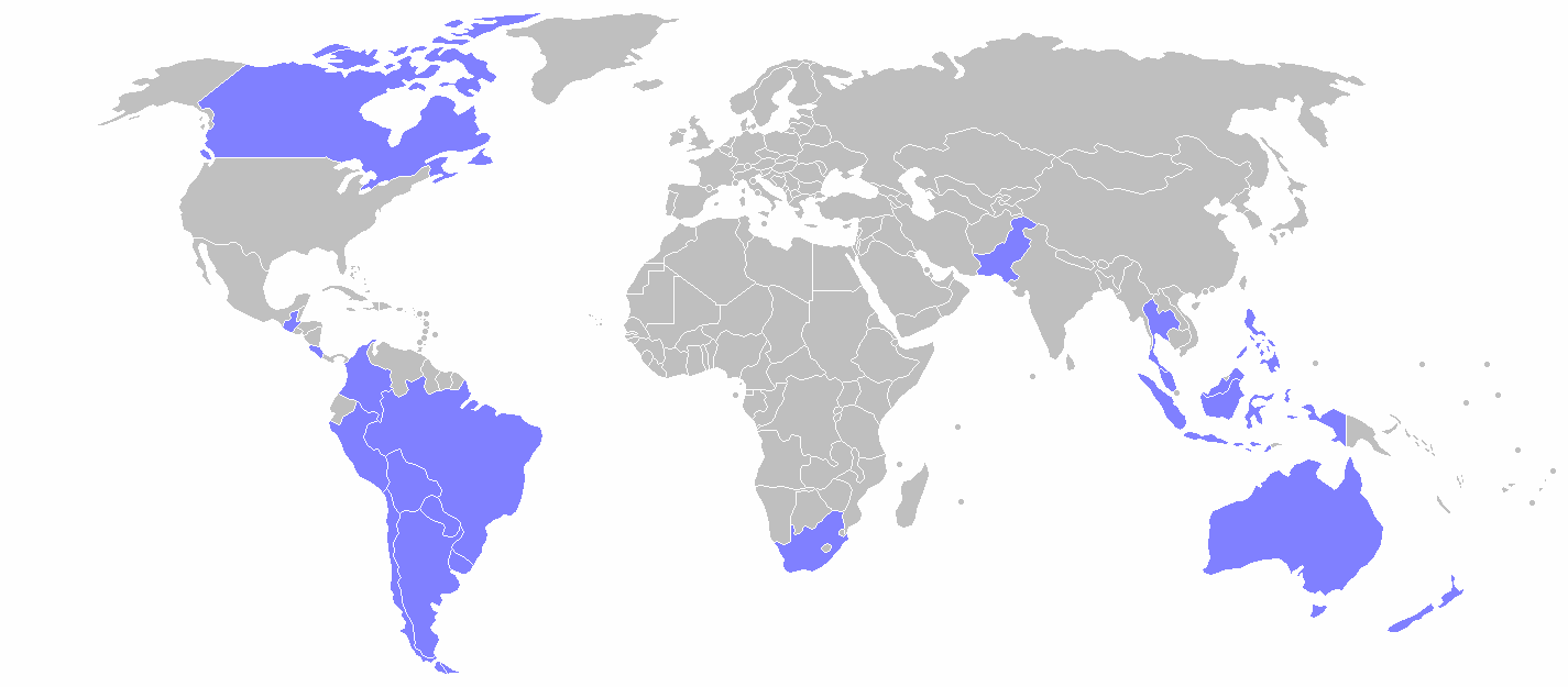 Cairns Group members states